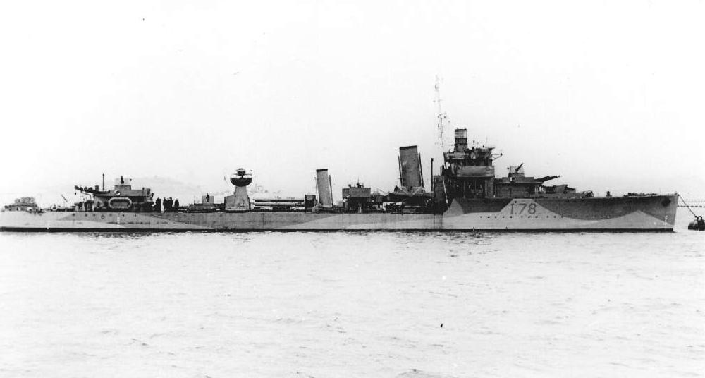 H . M . S . W O L V E R I N E ( D 7 8 )